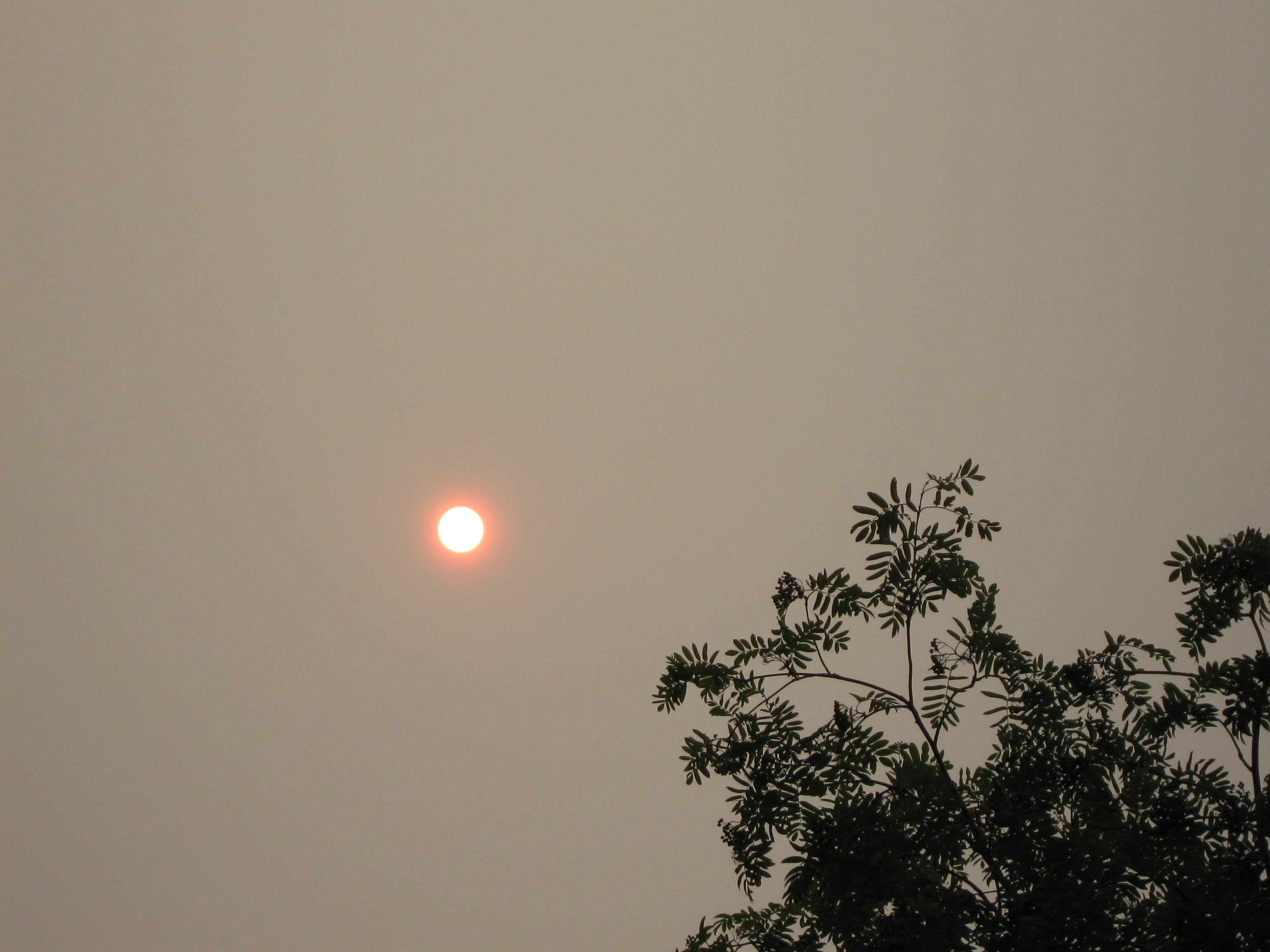 The sun through a smoke veil.